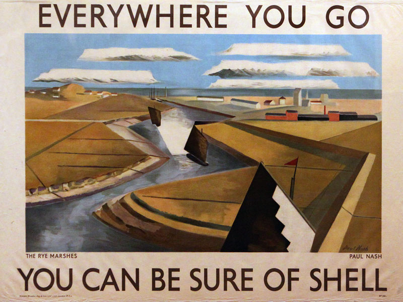 Advertising poster for Shell by Paul Nash, "Everywhere you go, you can be sure of Shell."